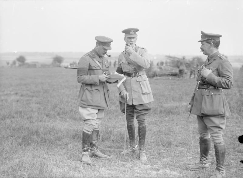 Group portrait including Hamilton Lyster Reed (centre), awarded the Victoria Cross: South Africa, 15 December 1899.